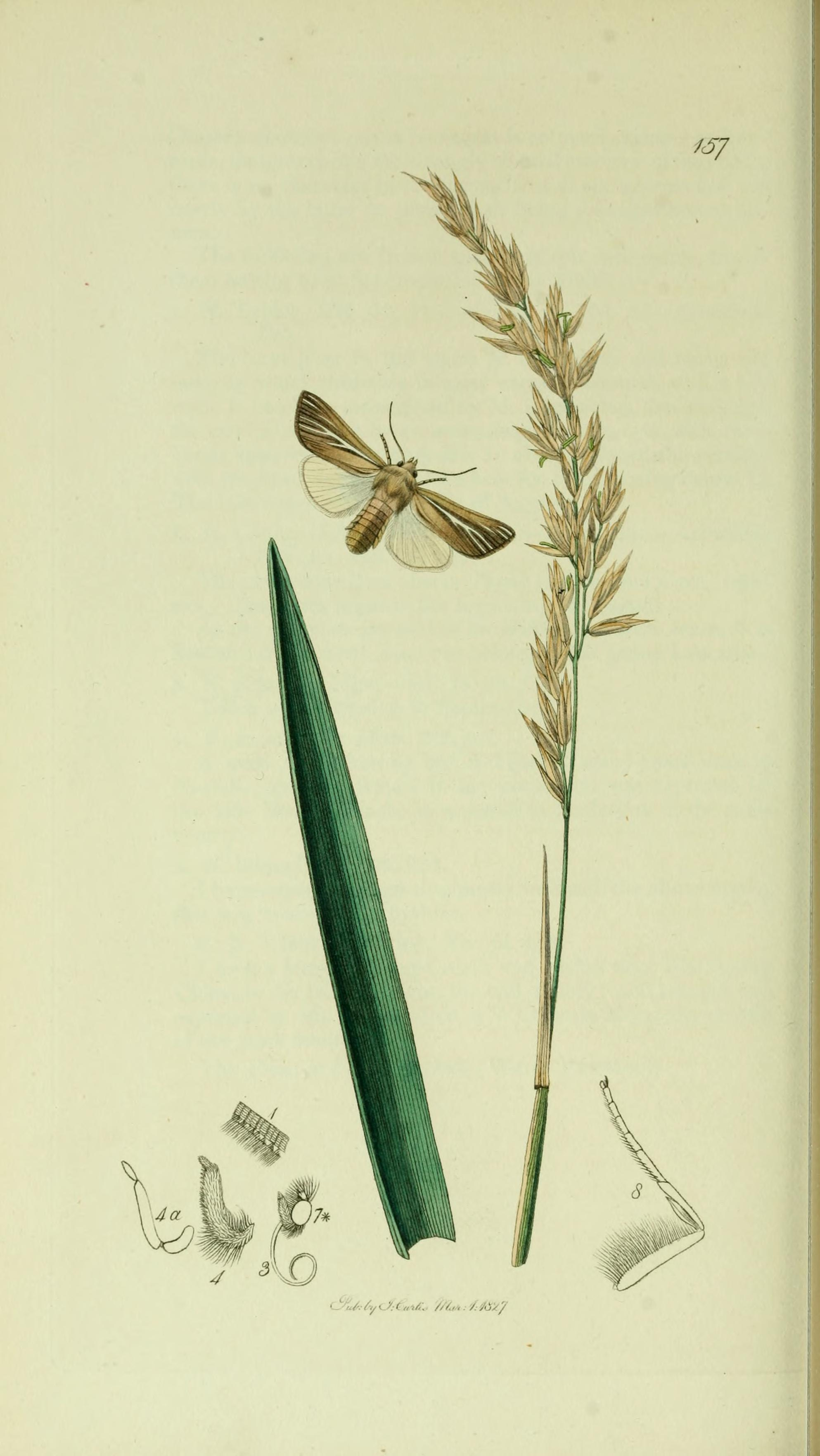 An illustration from British Entomology by John Curtis. Leucania litoralis or Mythimna litoralis (Sea-shore Wainscot).